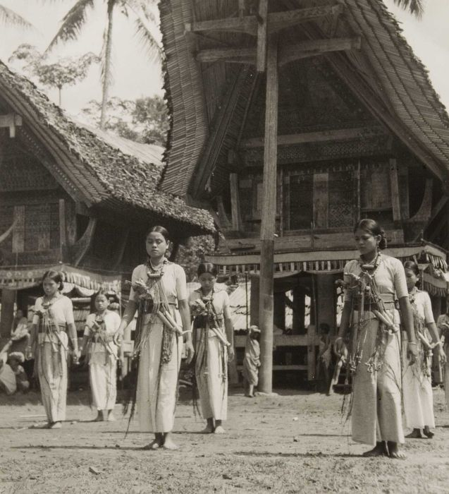 Toraja dance